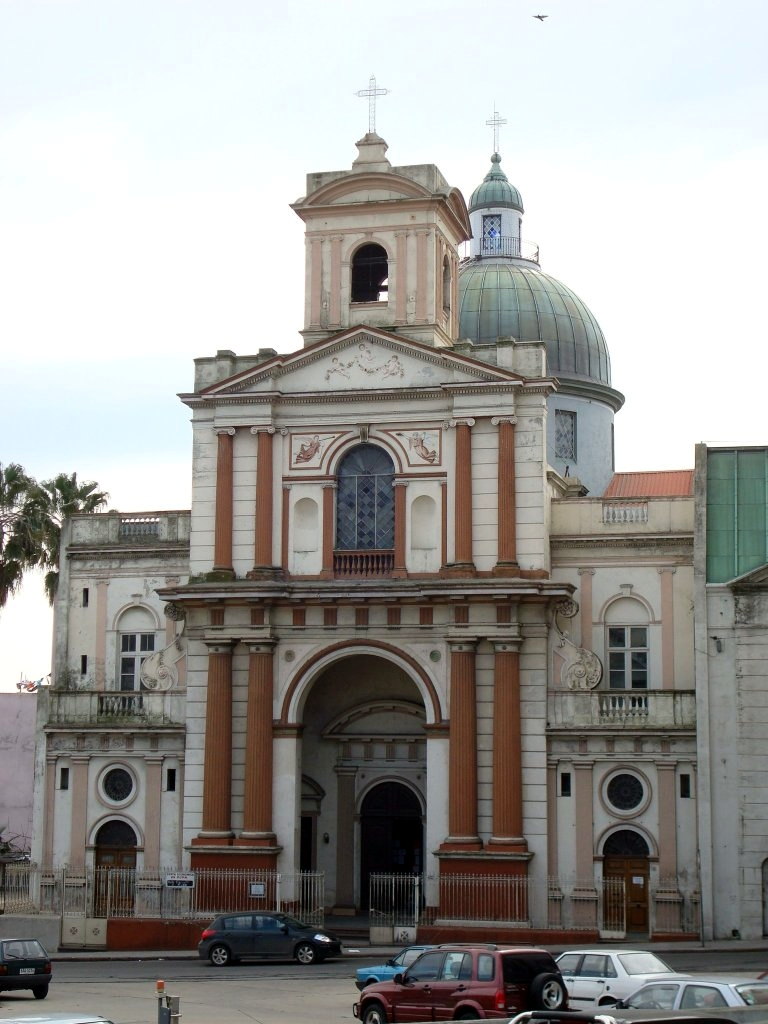 Nuestra Señora de Lourdes y San Vicente Pallotti in Ciudad Vieja, Montevideo, Uruguay.